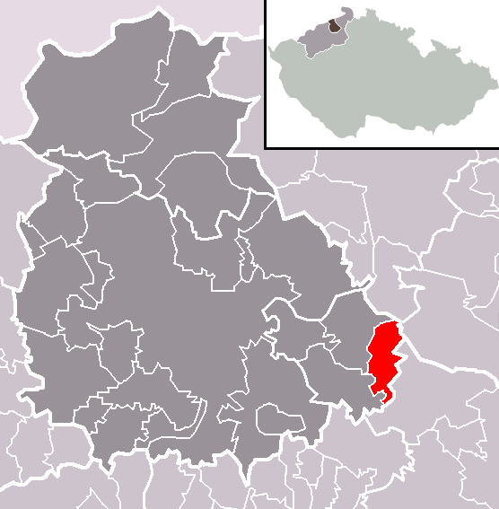 Location of Zubrnice municipality within Ústí nad Labem District and administrative area of Ústí nad Labem as a Municipality with Extended Competence.